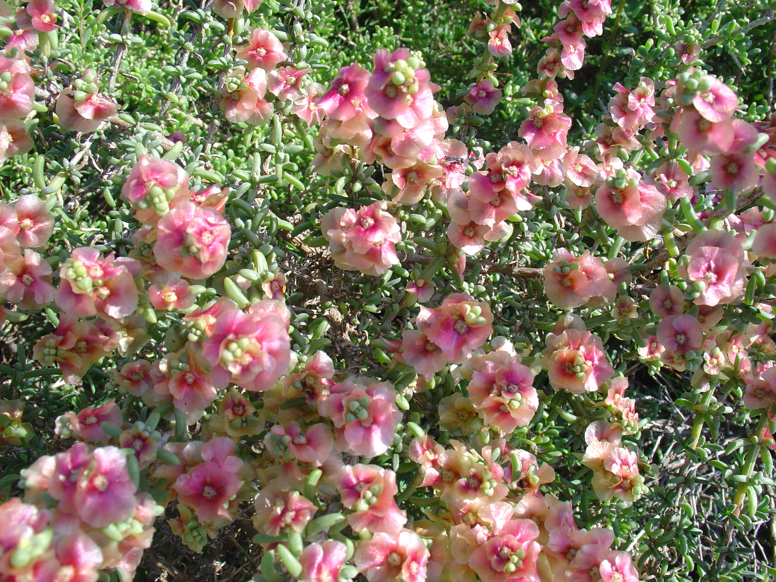 Salsola oppositifolia from Cabo de Palos, Murcia, Spain